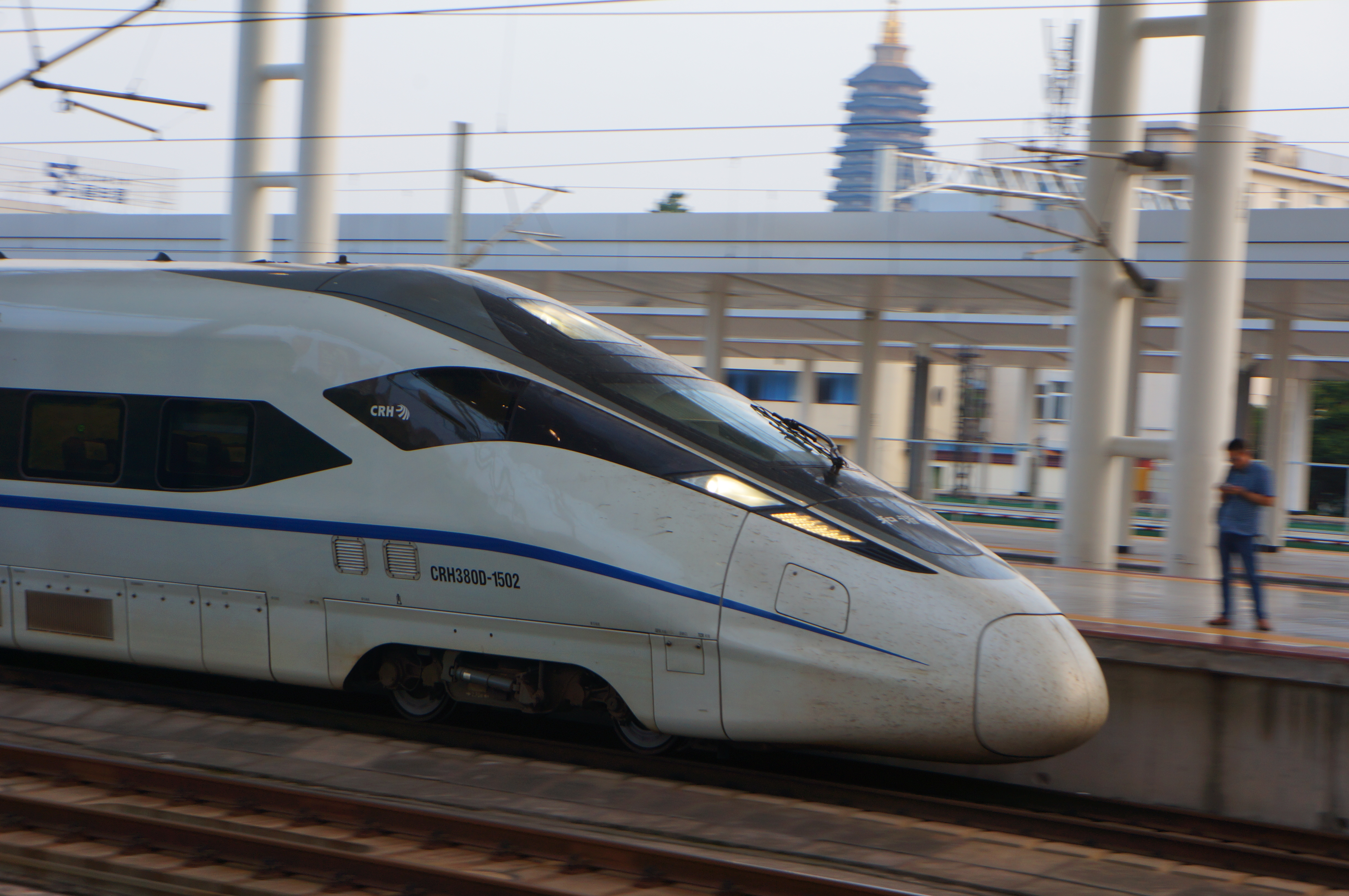 201806 CRH380D-1502 operates as G7022 at Changzhou Station